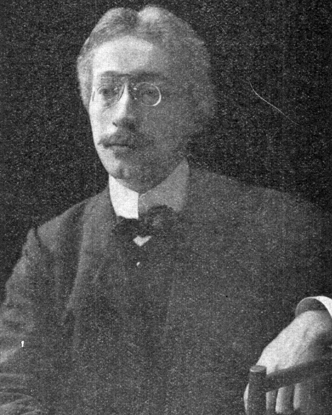 Sigvart Høgh-Nilsen in 1907